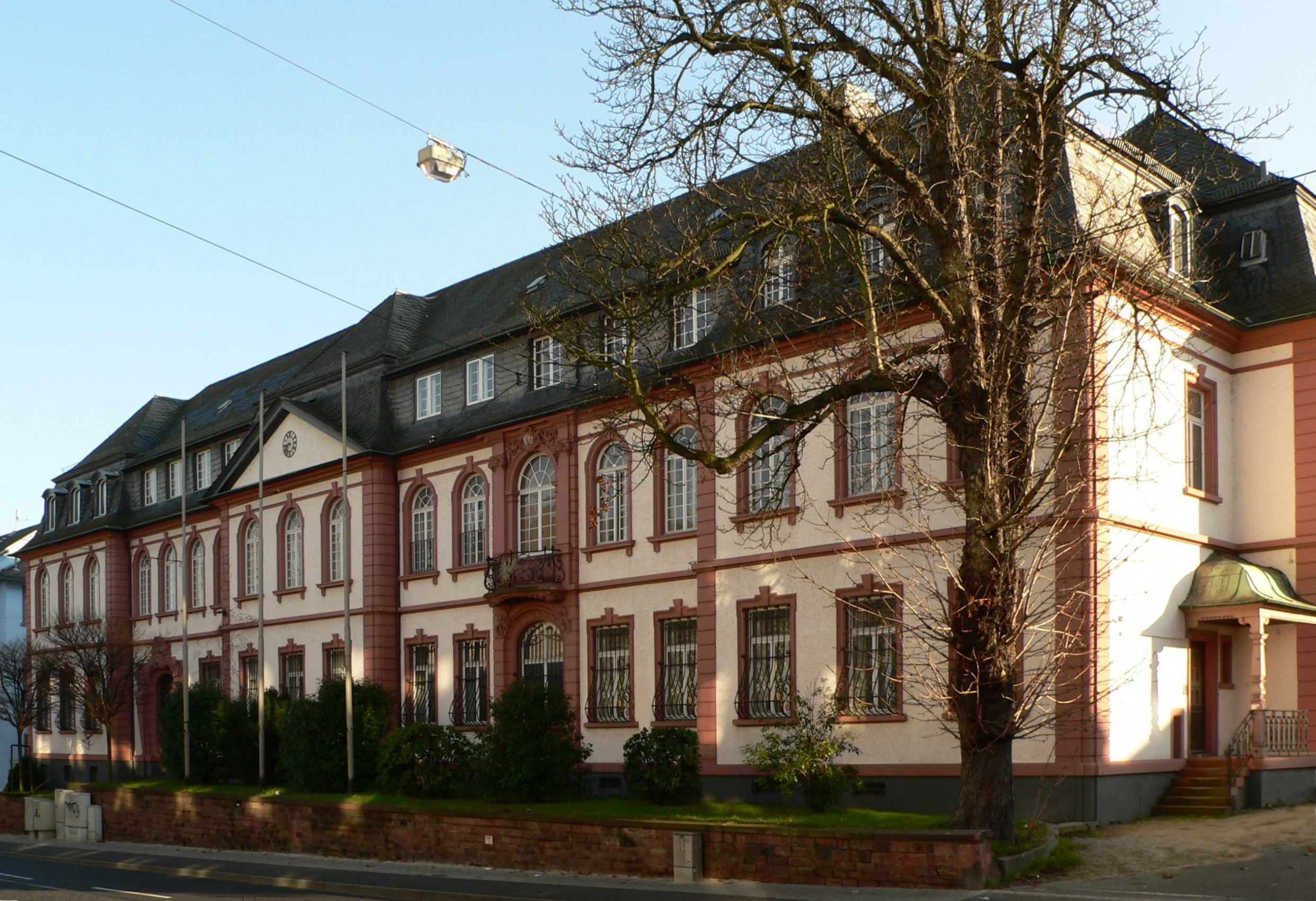 Building of the former district administration of the Main-Taunus district in Frankfurt-Höchst